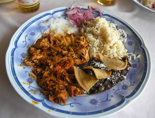 Author: Gaizka Nuñez Description:Cochinita pibil